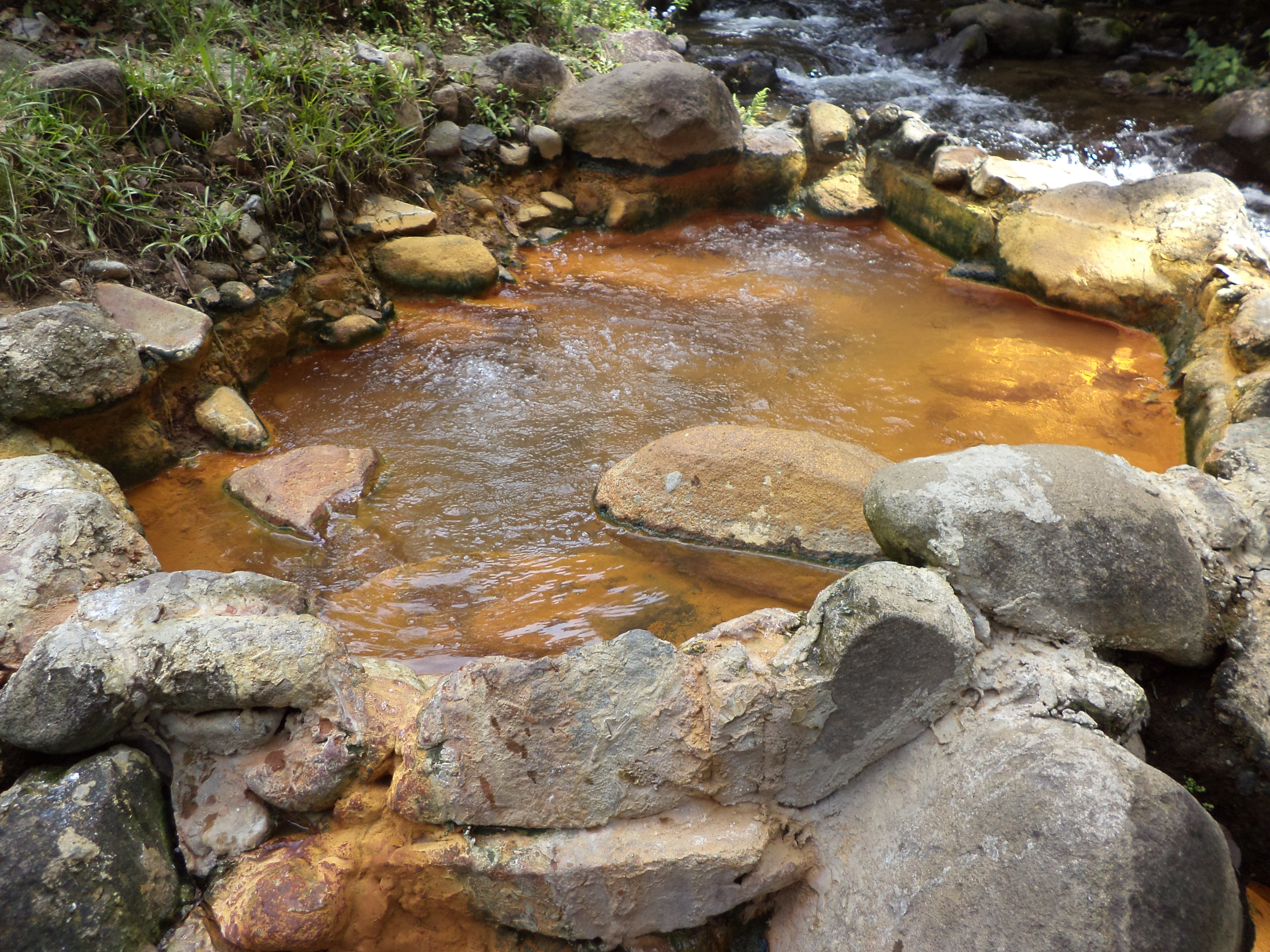 Pozos Termales de Volcán ubicados en Silla de Pando